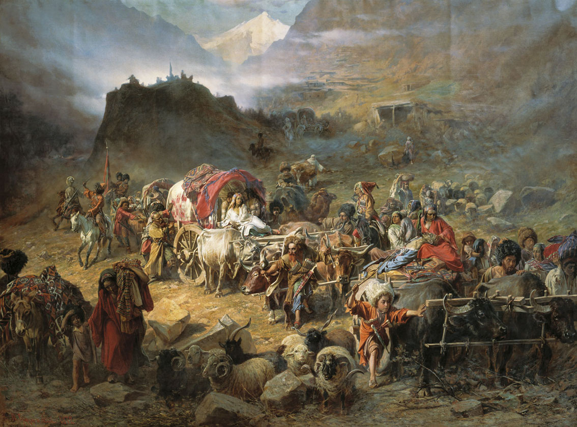 The abandonment of the village by the mountaineers as the Russian troops approached